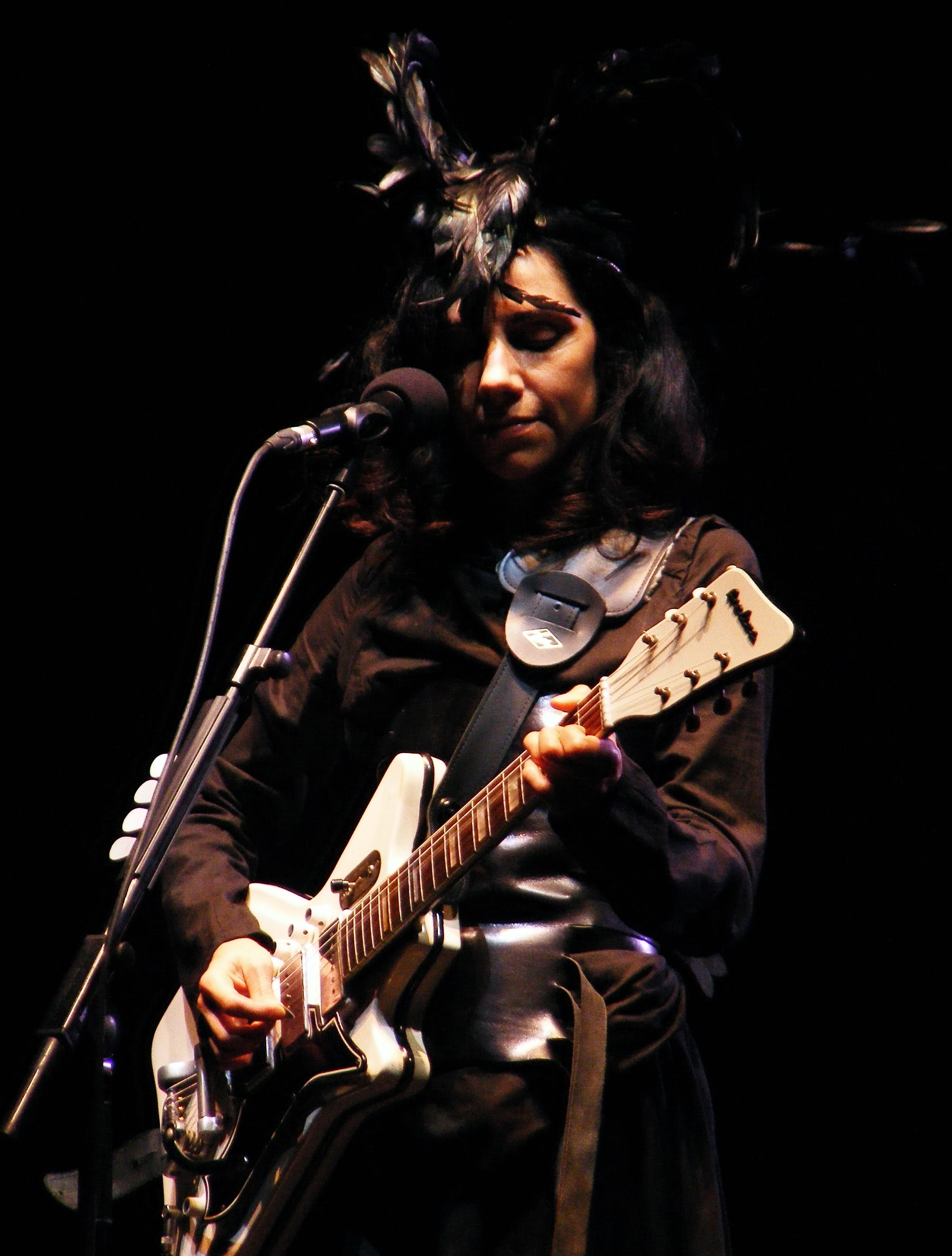 PJ Harvey performing live at the O2 Apollo in Manchester, United Kingdom on Thursday, 8 September 2011.